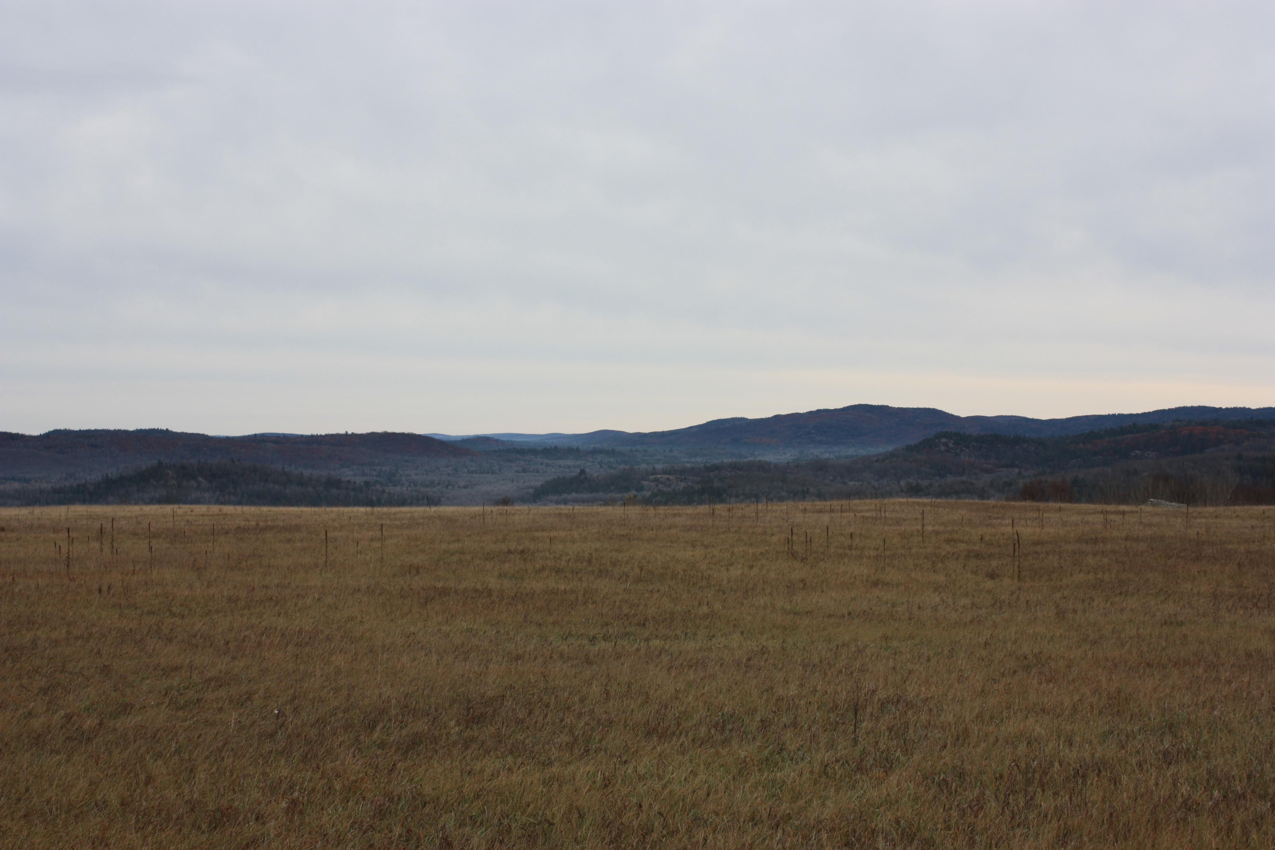 Valley of the York River in the Madawaska Highlands in Carlow Mayo Township